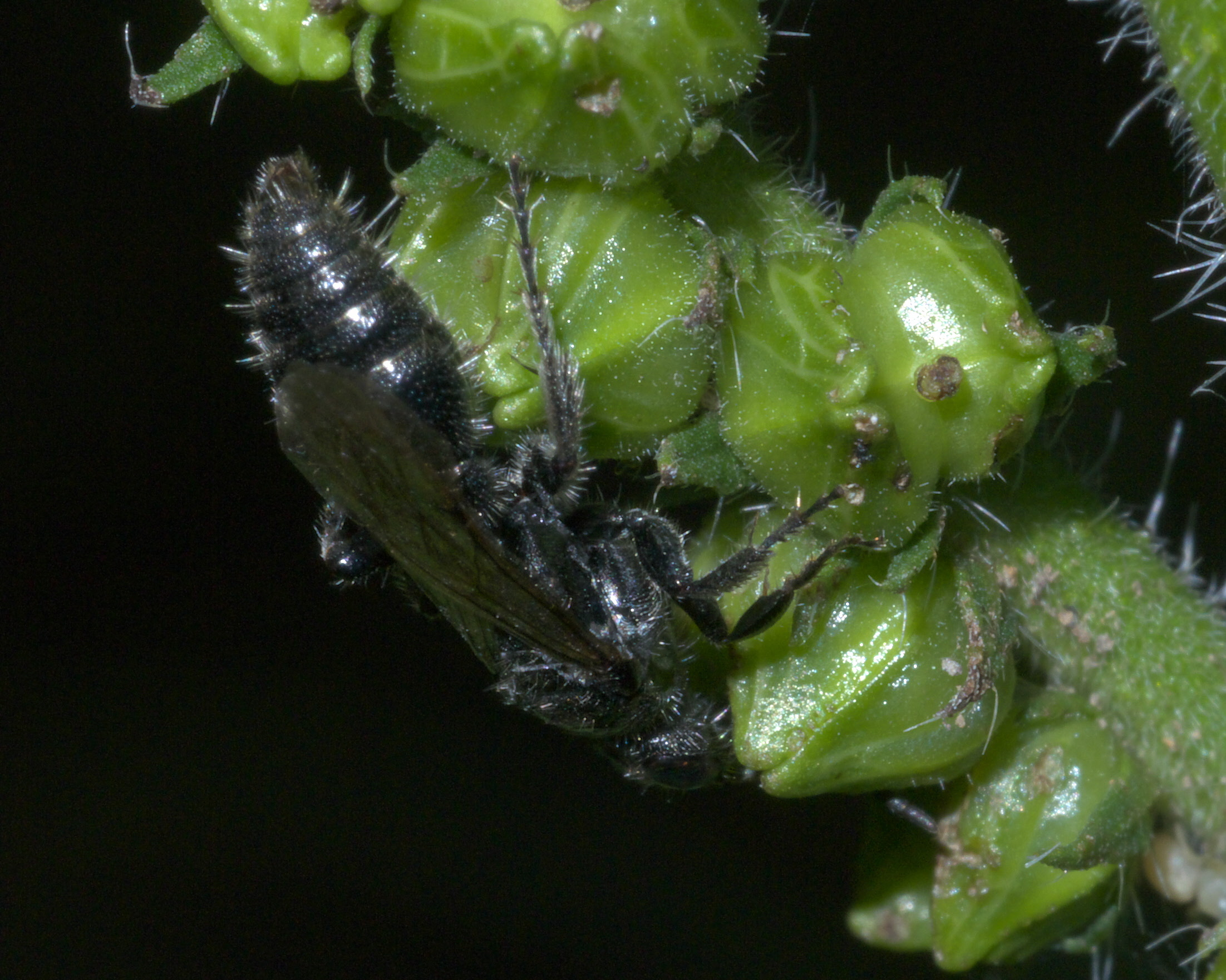 Tiphia, Family: Tiphiid Wasps, ID Confidence: 98